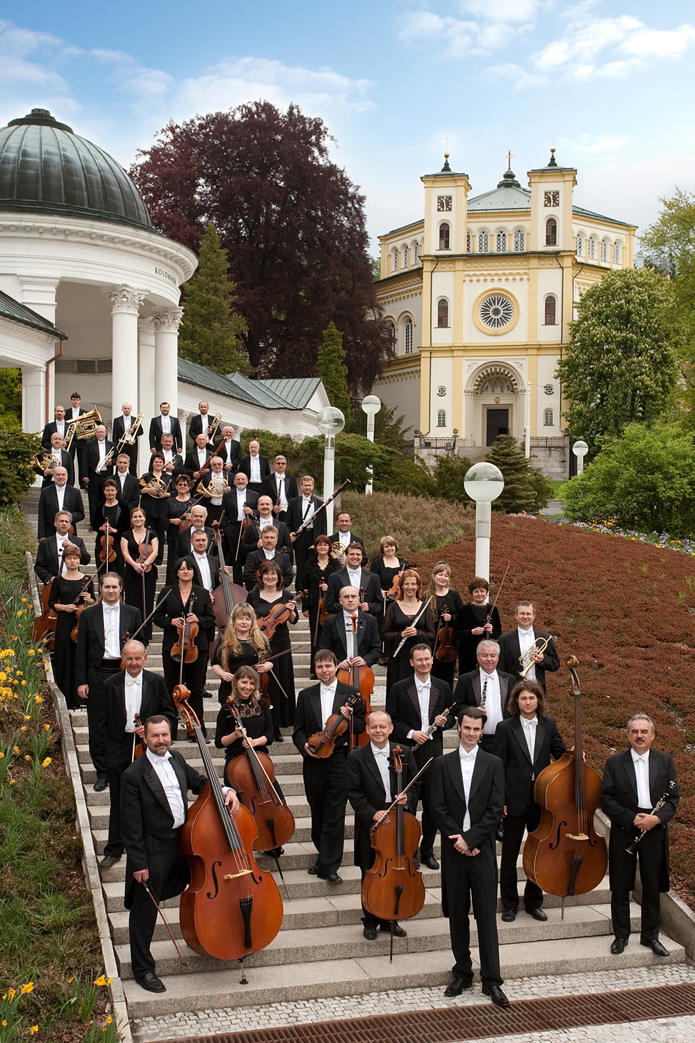 West bohemian symphony orchestra of Mariánské Lázně